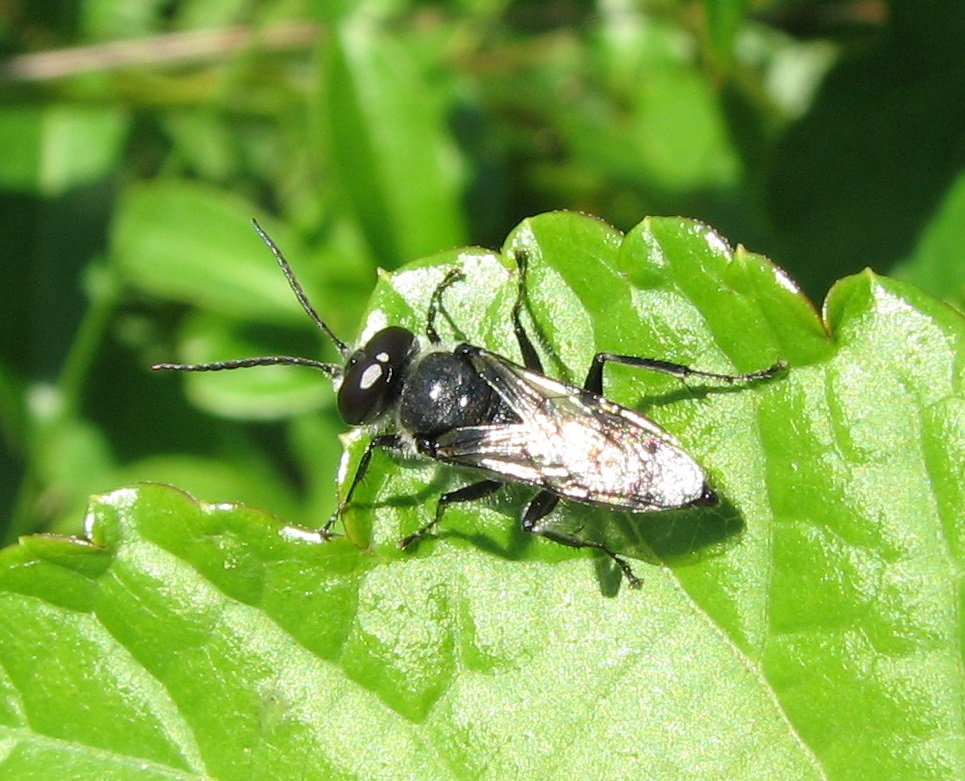 Crabronid wasp, Astata, male. Pennypack Restoration Trust, Montgomery County, Pennsylvania, USA.